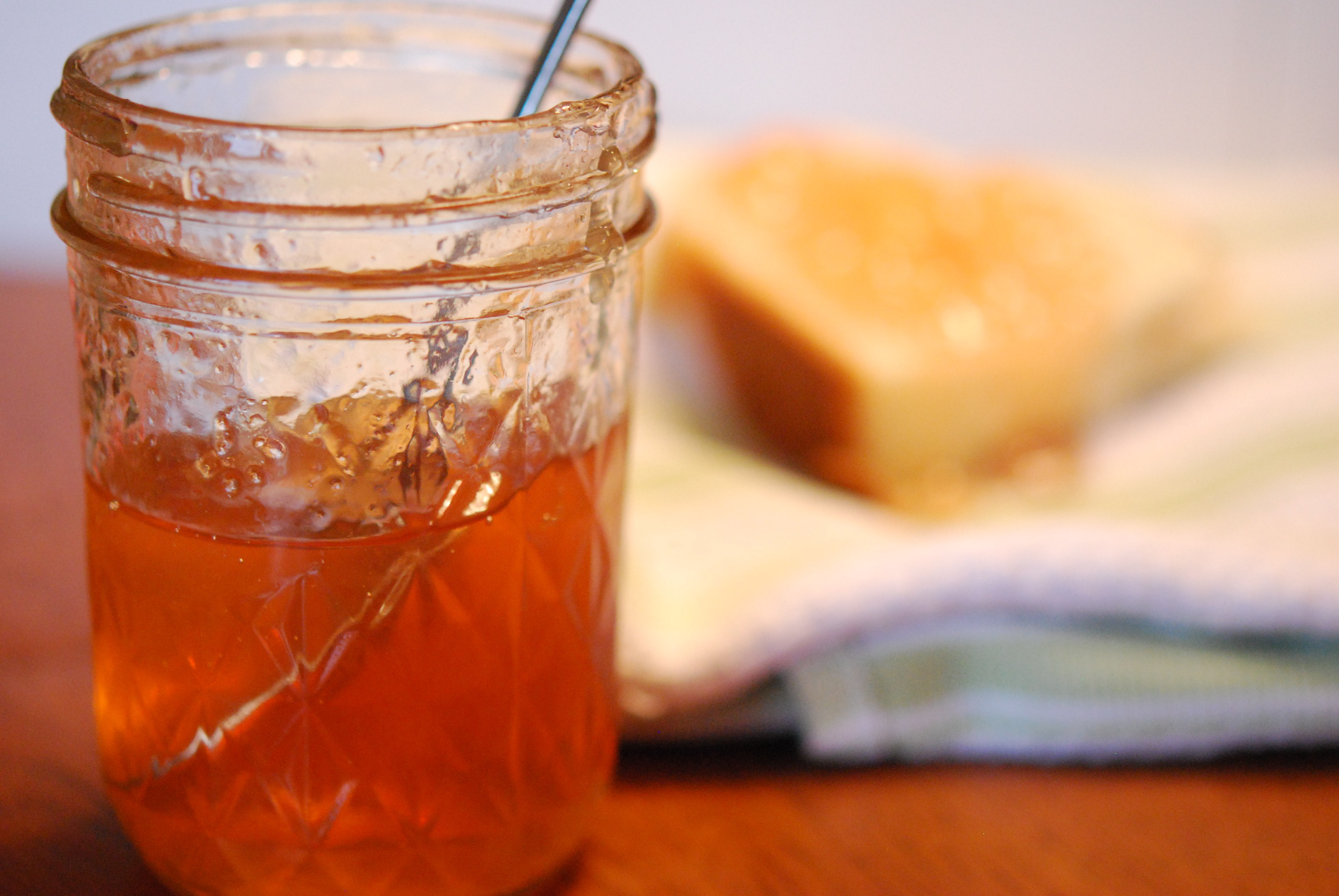 apple jelly shot.